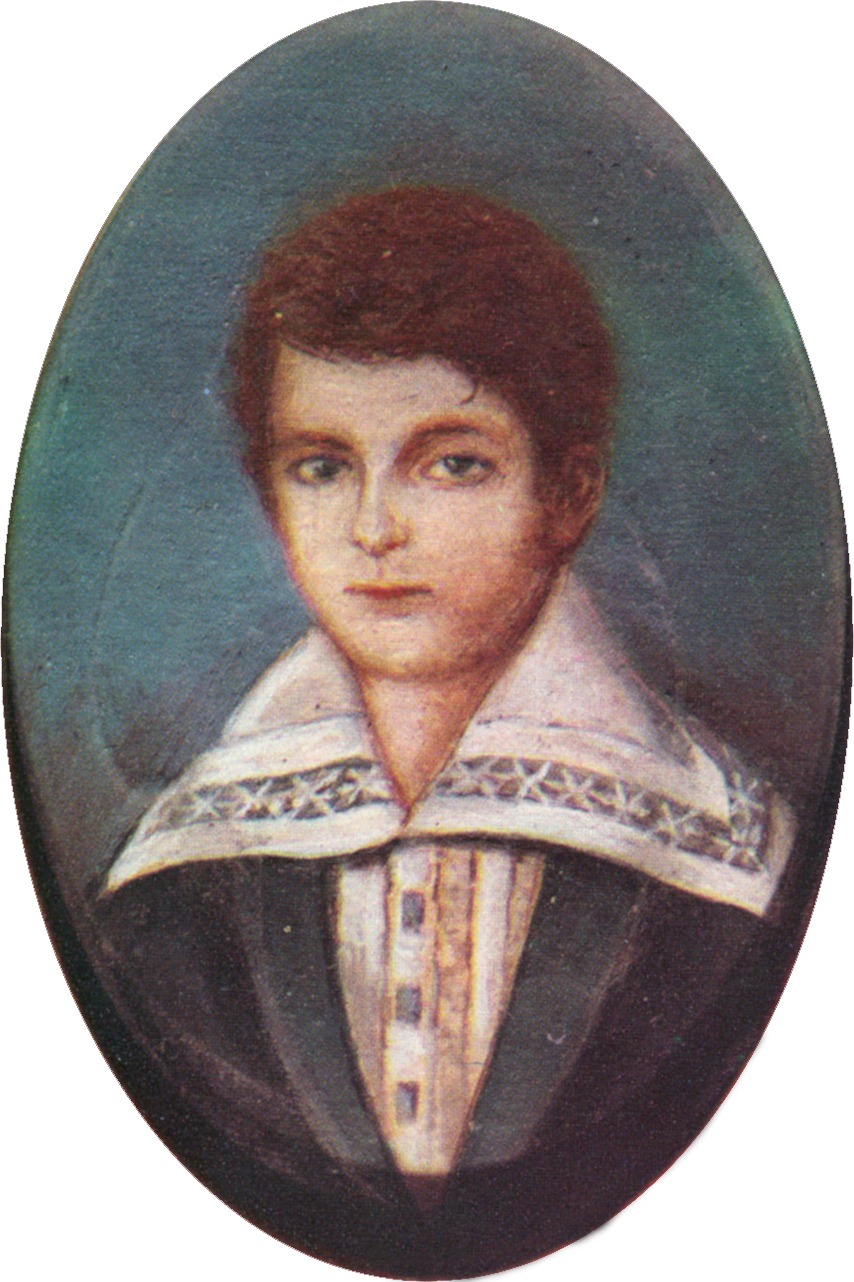 Juan Manuel de Rosas during his childhood